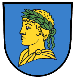 Coat of arms of Riegel am Kaiserstuhl